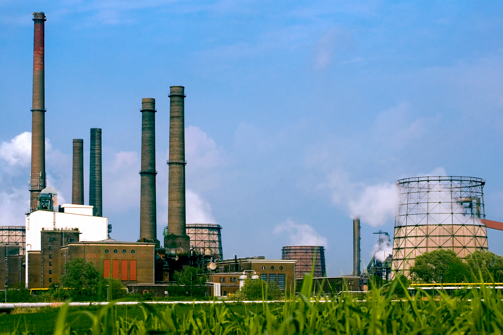 The steel factory in Salzgitter, Germany